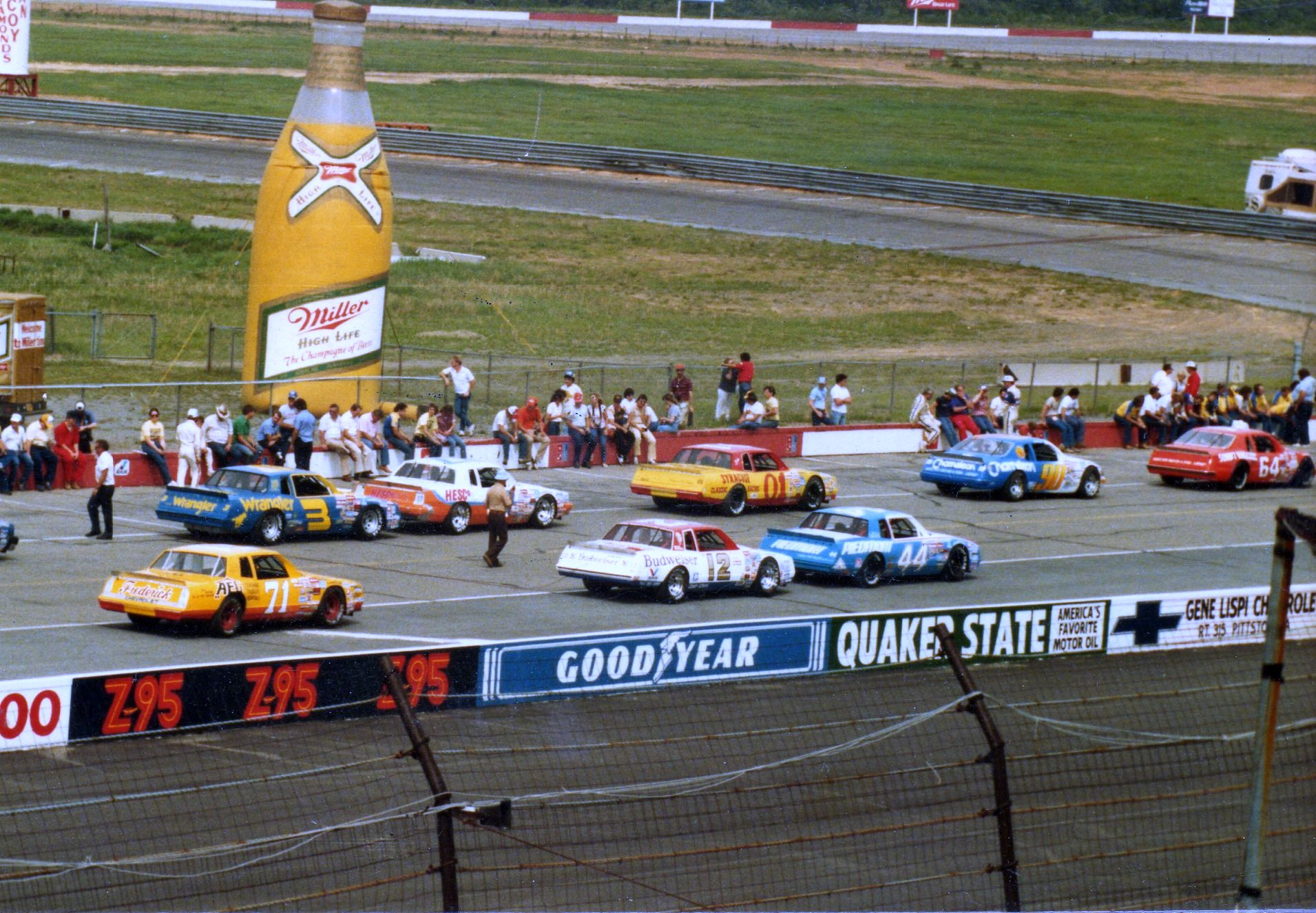 NASCAR Winston Cup stock cars on the pit lane of Pocono Speedway in 1984. Seen in this shot on pit lane at Pocono are 64 Tommy Gale, 90 Dick Brooks, 01 Doug Heveron, 44 Terry Labonte, 17 Clark Dwyer, 12 Neil Bonnett, 3 Dale Earnhardt and 71 Bobby Gerhart